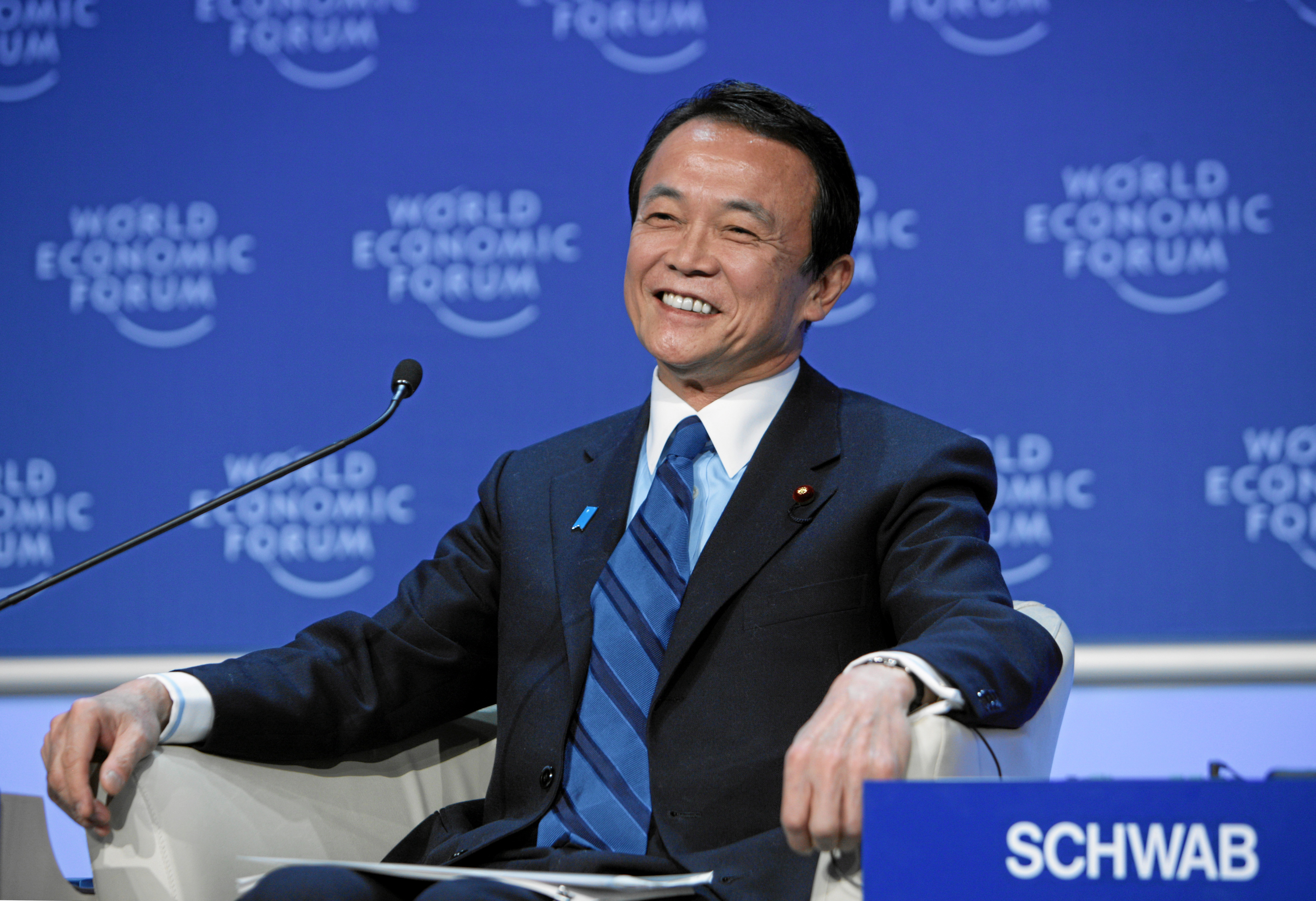 Japanese Prime Minister Taro Aso in 2009 WEF.